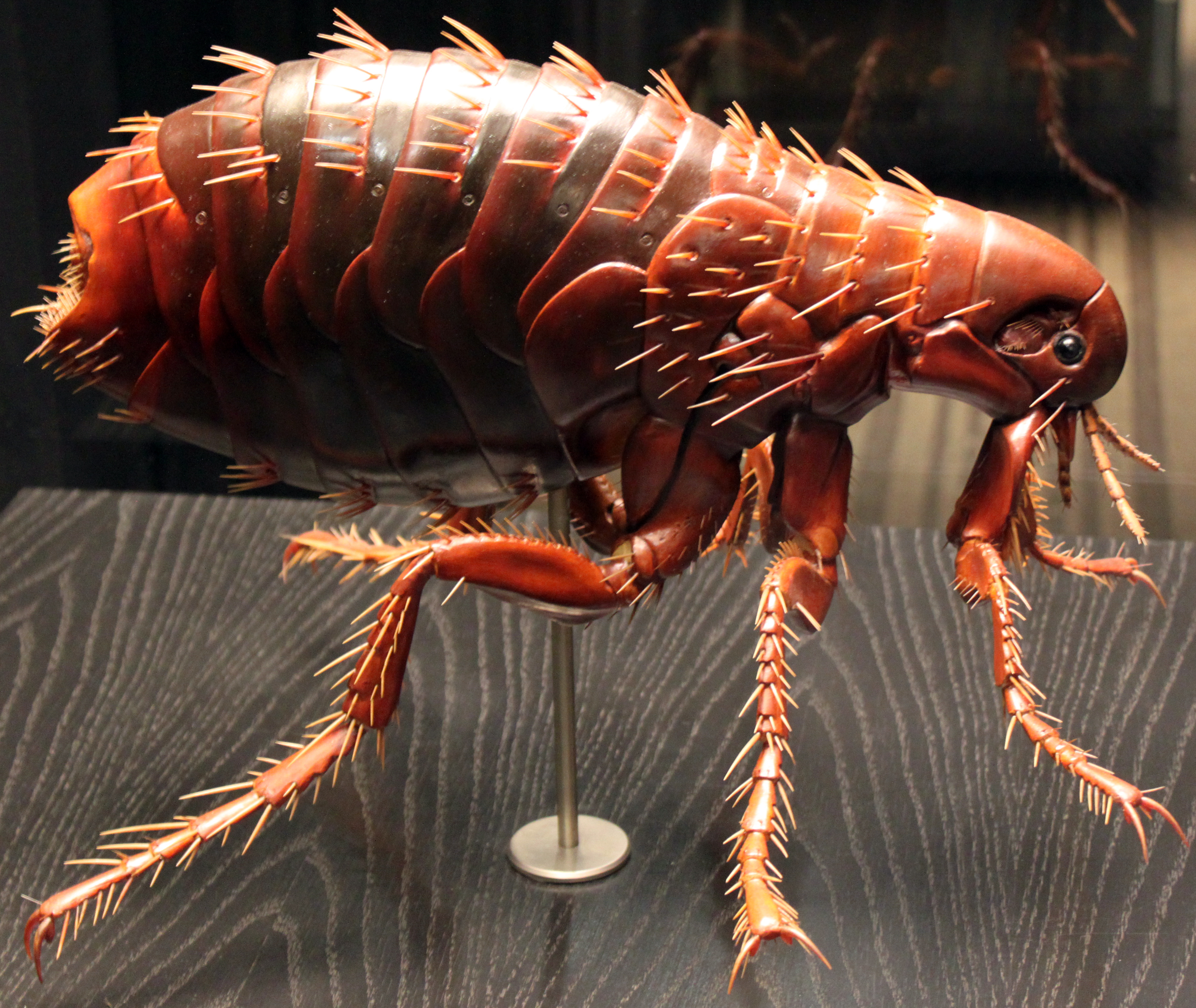 Museum of Natural History Berlin: a model of a human flea (pulex irritans), made ​​by Alfred Keller in the year 1930